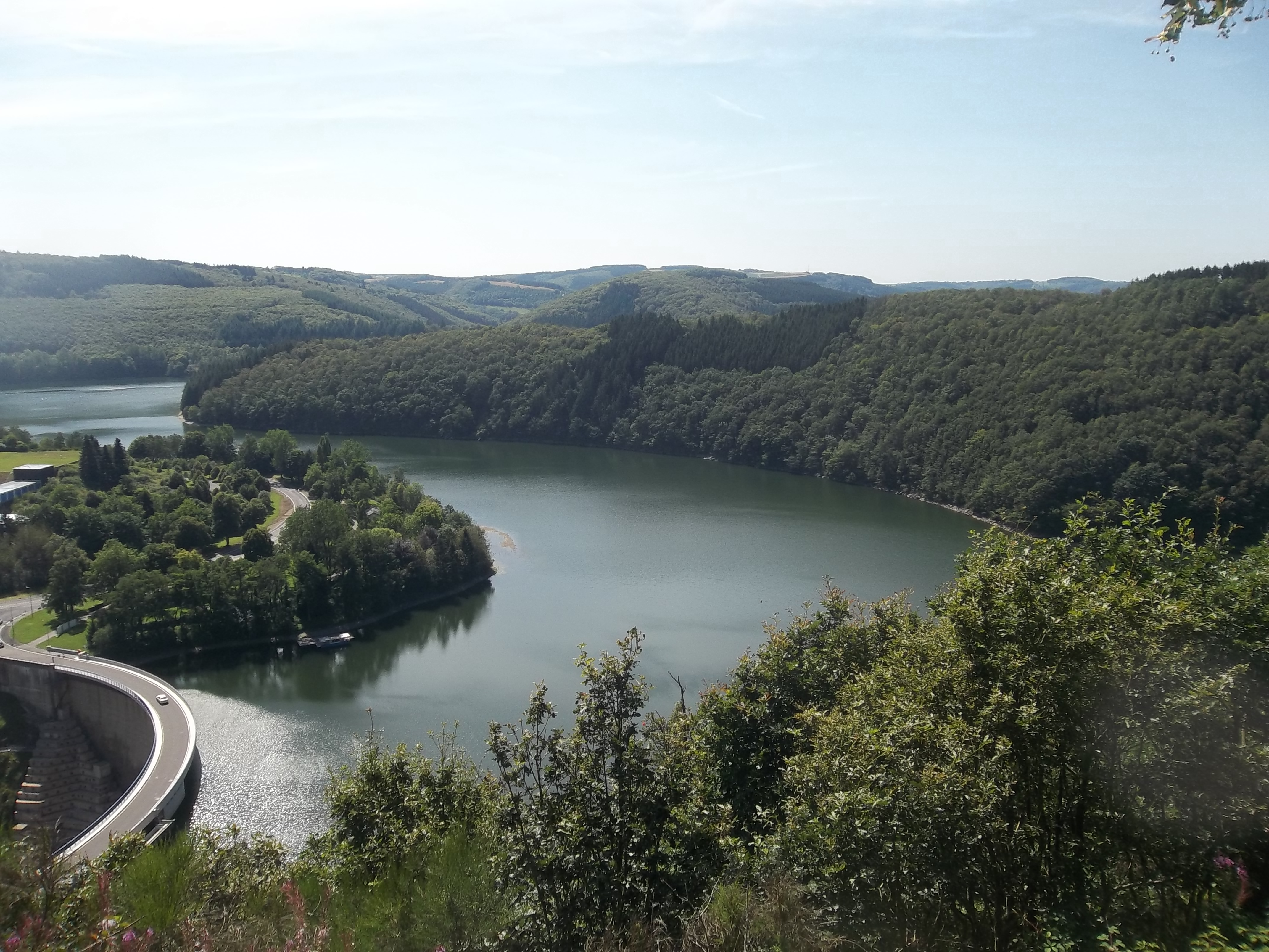 View from the nearest hill on the lake of Haute-Sure and on the dam.